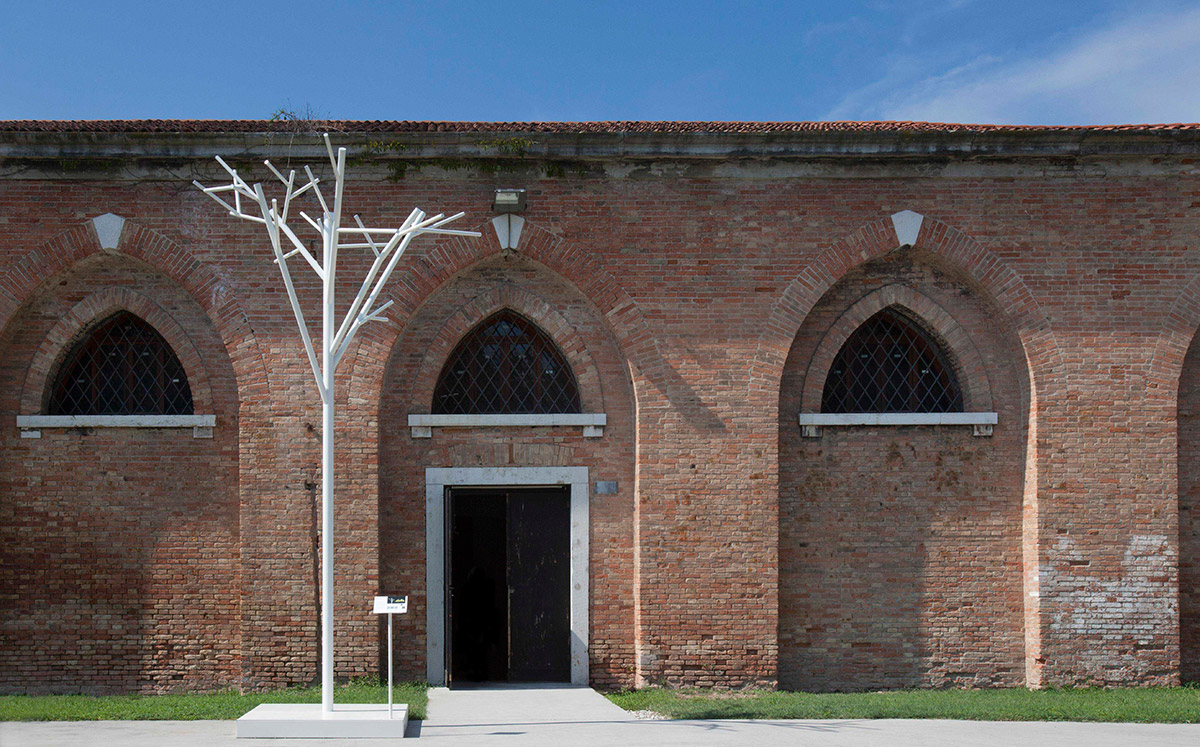 Albero design Enzo Eusebi